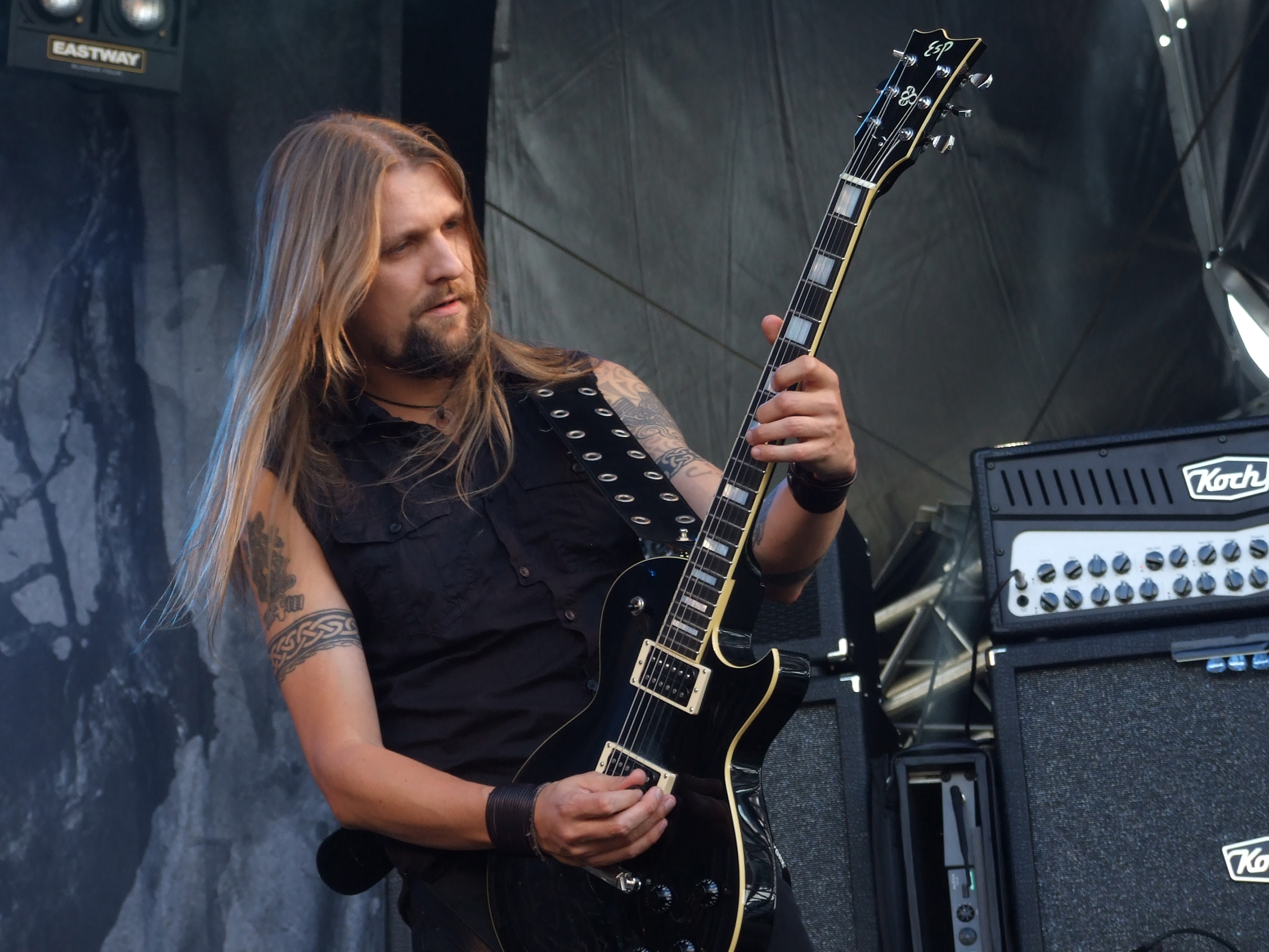 Esa Holopainen performing live with Amorphis at Jurassic Rock 2008 in Mikkeli, Finland. Photo: Tina Solda